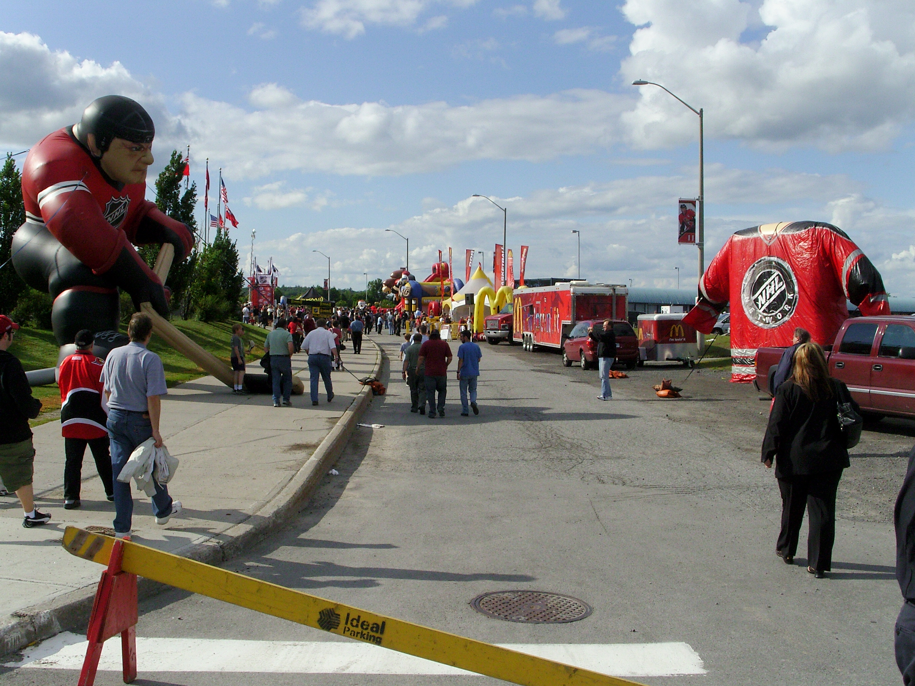 Frank Finnigan Way in front of Scotiabank Place filled with inflatables.